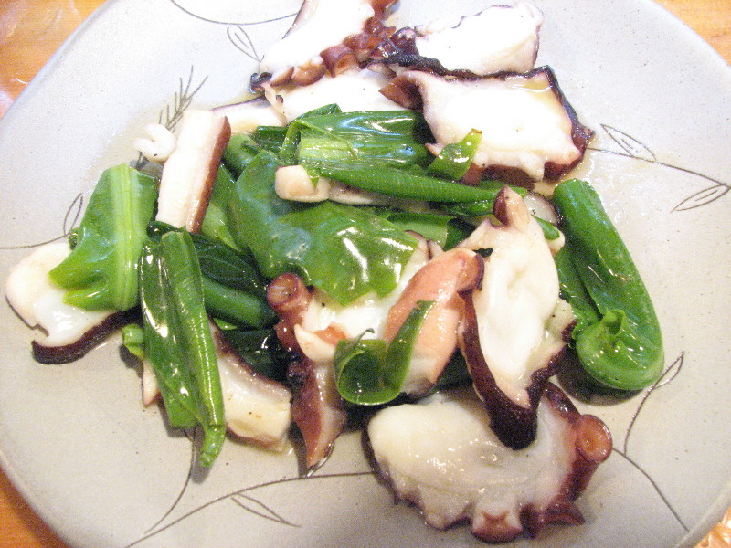 Cooked Asplenium antiquum, fried with octopus.